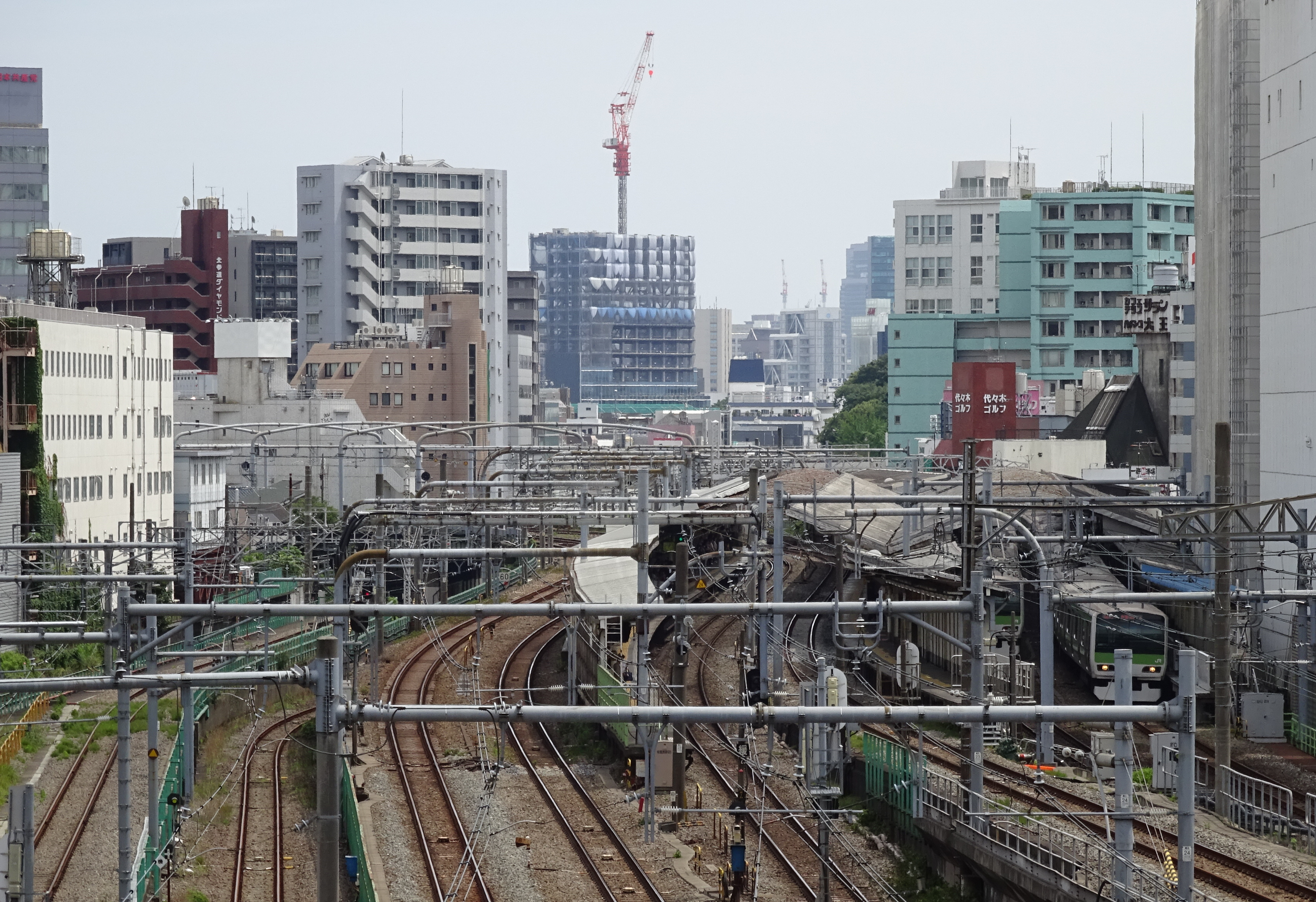 Yoyogi Station(JR)